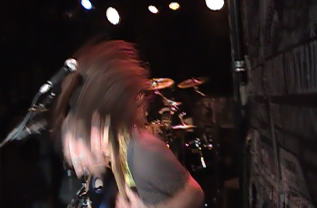 Dave Tyo, rhythm guitarist for the hard-rock band Bipolar, is shown headbanging on stage at CBGB in New York City. Photo taken by Peter Morris Sr. on 4-3-05 and given to the band. Uploaded by band member for free use in the article.